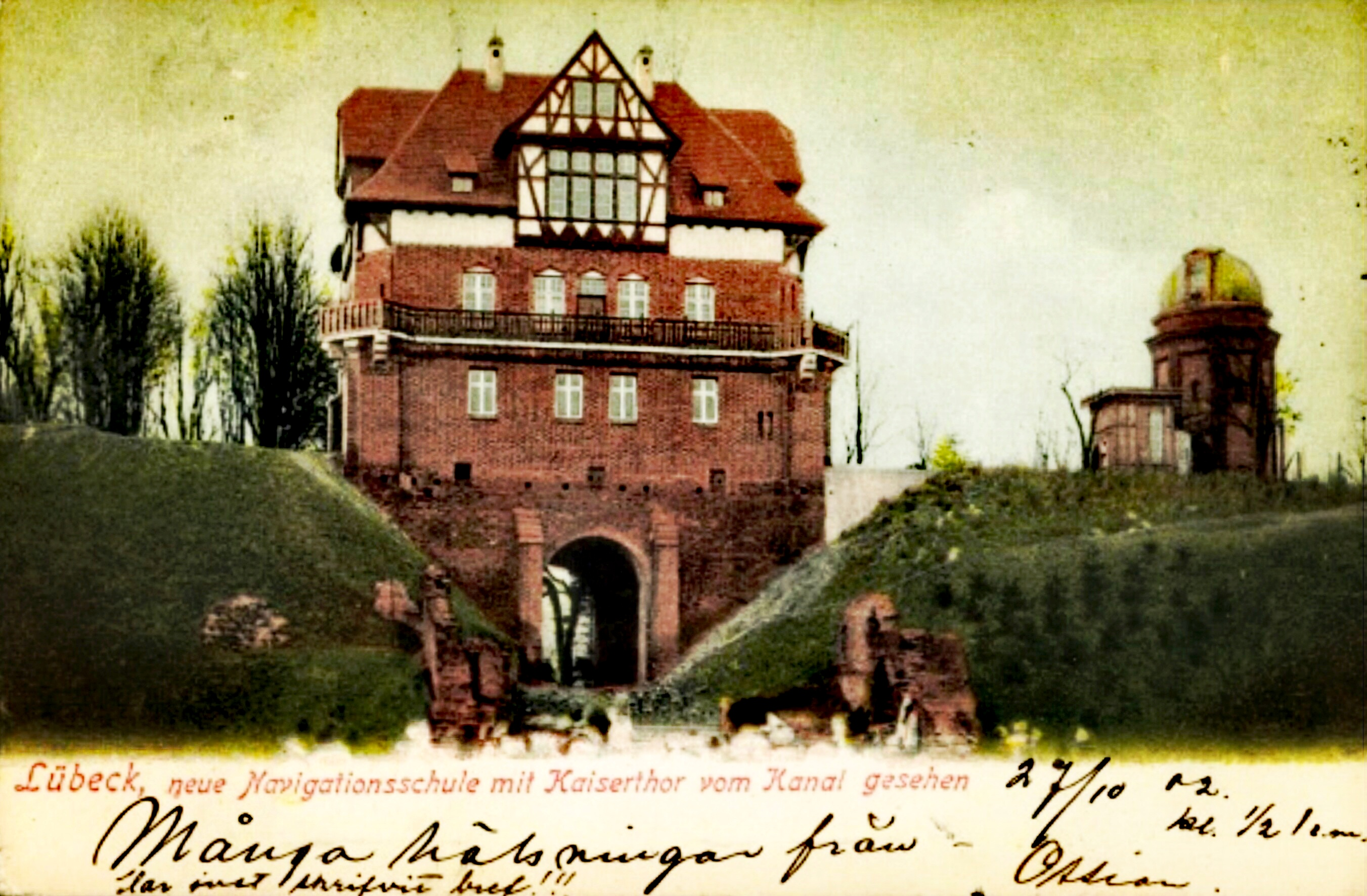 Navigation School in the medieval Kaisertor town gate in Lübeck